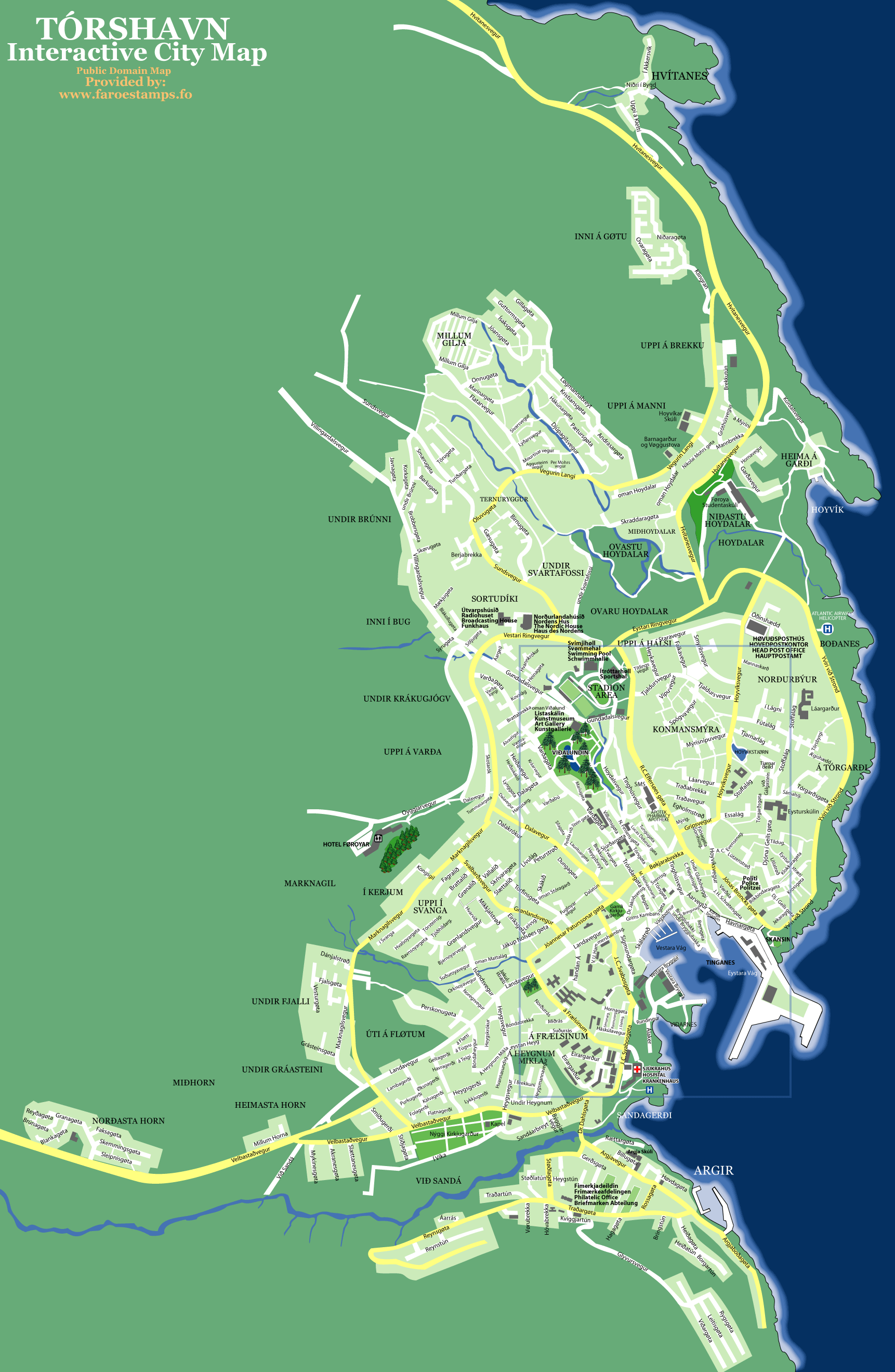 Tórshavn, capital of the Faroe Islands